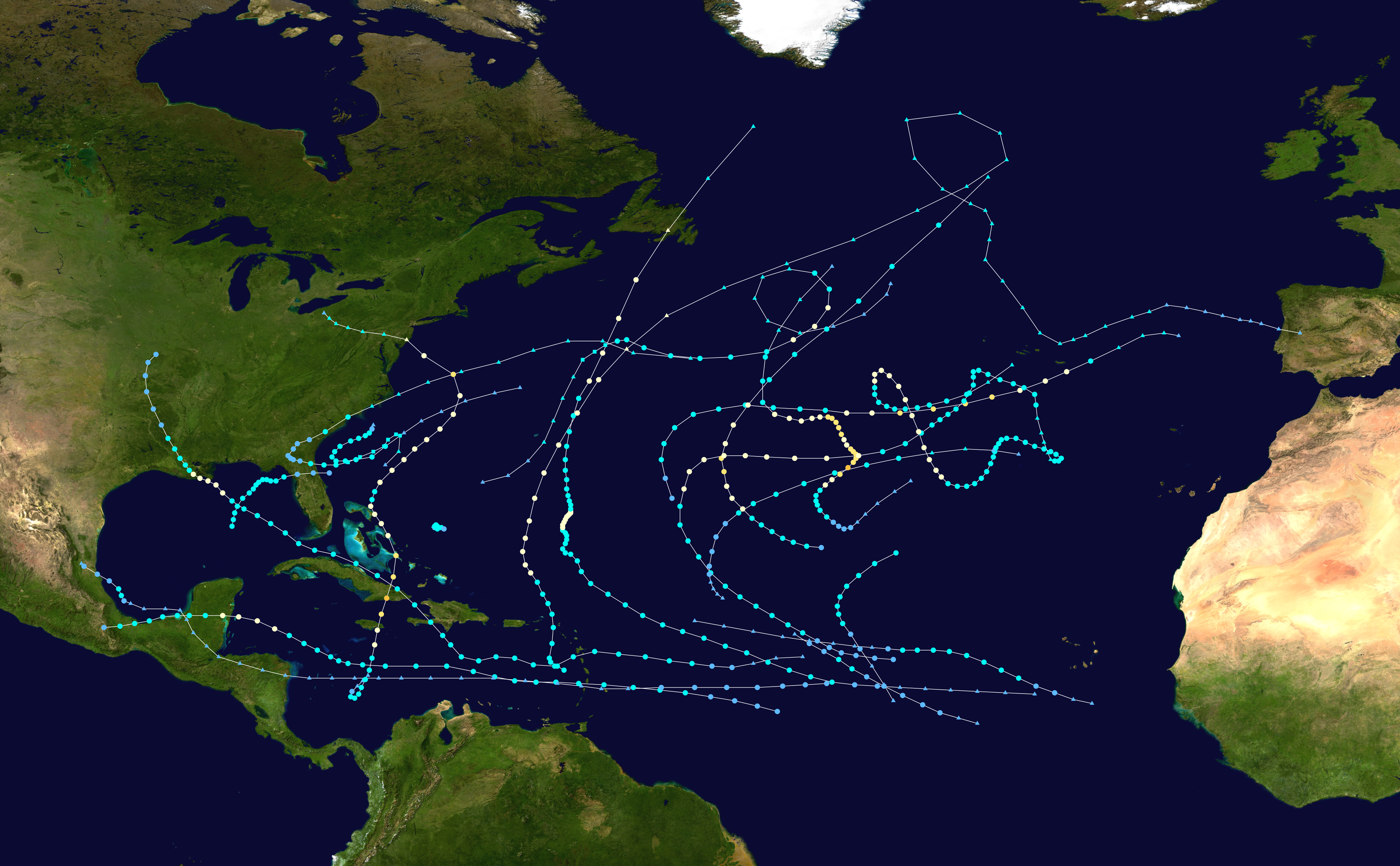 This map shows the tracks of all tropical cyclones in the 2012 Atlantic hurricane season. The points show the location of each storm at 6-hour intervals. The colour represents the storm's maximum sustained wind speeds as classified in the Saffir-Simpson Hurricane Scale (see below), and the shape of the data points represent the type of the storm. Saffir–Simpson scale Tropical depression≤38 mph≤62 km/h Category 3111–129 mph178–208 km/h Tropical storm39–73 mph63–118 km/h Category 4130–156 mph209–251 km/h Category 174–95 mph119–153 km/h Category 5≥157 mph≥252 km/h Category 296–110 mph154–177 km/h Unknown Storm type Tropical cyclone Subtropical cyclone Extratropical cyclone / Remnant low / Tropical disturbance / Monsoon depression